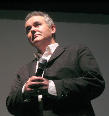 Adam Curtis speaking on stage at the San Fransico International Film Festival, May 2005.